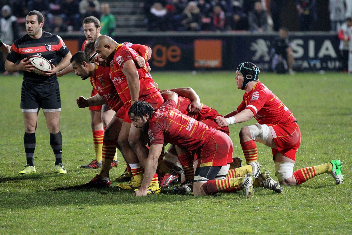 Le pack de l'USAP à Toulouse lors de la 18ème journée de Top 14